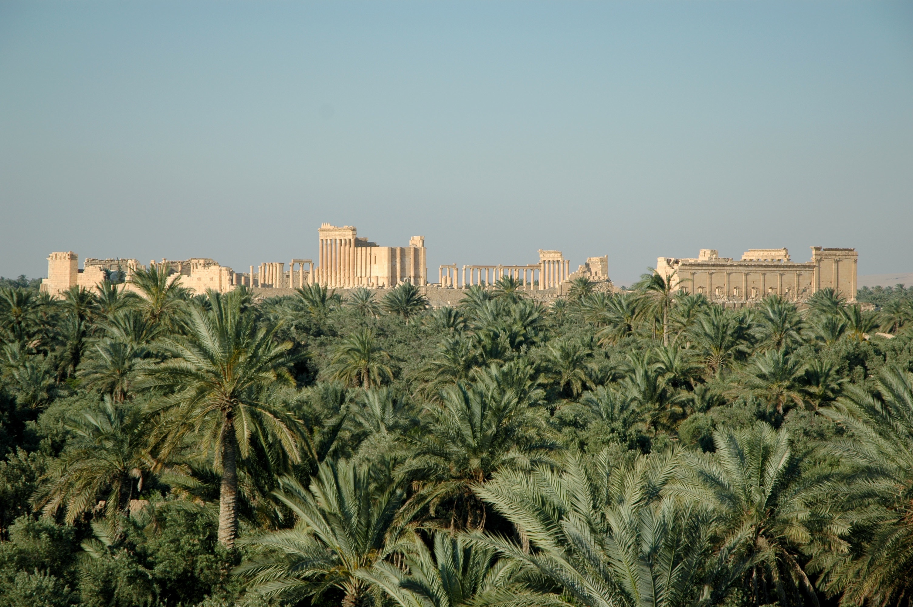 Temple of Baal, Palmyra in 2004